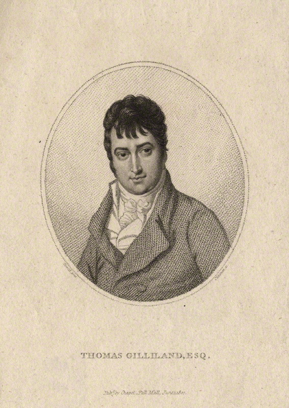 Portrait of Thomas Gilliland, British writer.